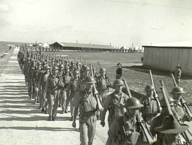 Troops from the Australian 2/4th Infantry Battalion at Gaza